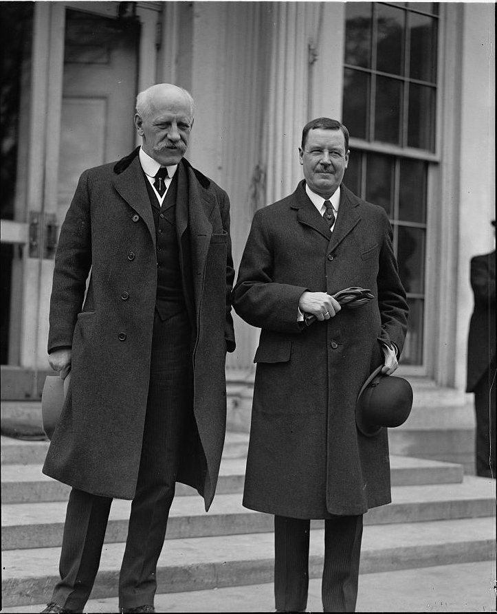 Fridtjof Nansen and the Norwegian minister at Washington, Helmer Bryn